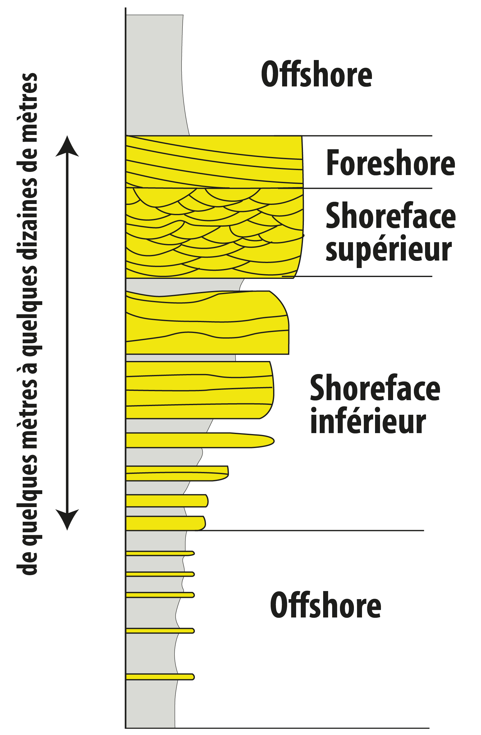 Stratigraphic log of a regression